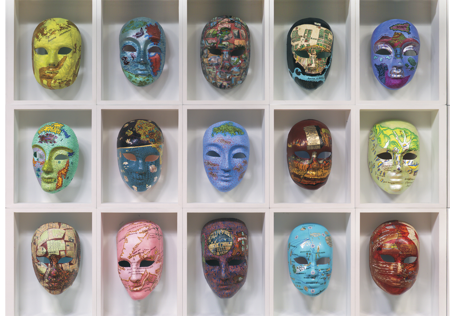 Date, 2004-6. Medium, acrylic, collage/cast paper, wood. Size, each box 12 x 10 x 4", 63 in series In the fall of 2004, Joyce Kozloff was in residence at the Camargo Foundation in Cassis, France. During that time on a visit to Venice, Joyce Kozloff became aware of cheap, kitschy "carnevale" masks sold at tourist kiosks. She purchased unpainted, pressed paper pulp masks to decorate with maps of islands all over the world.